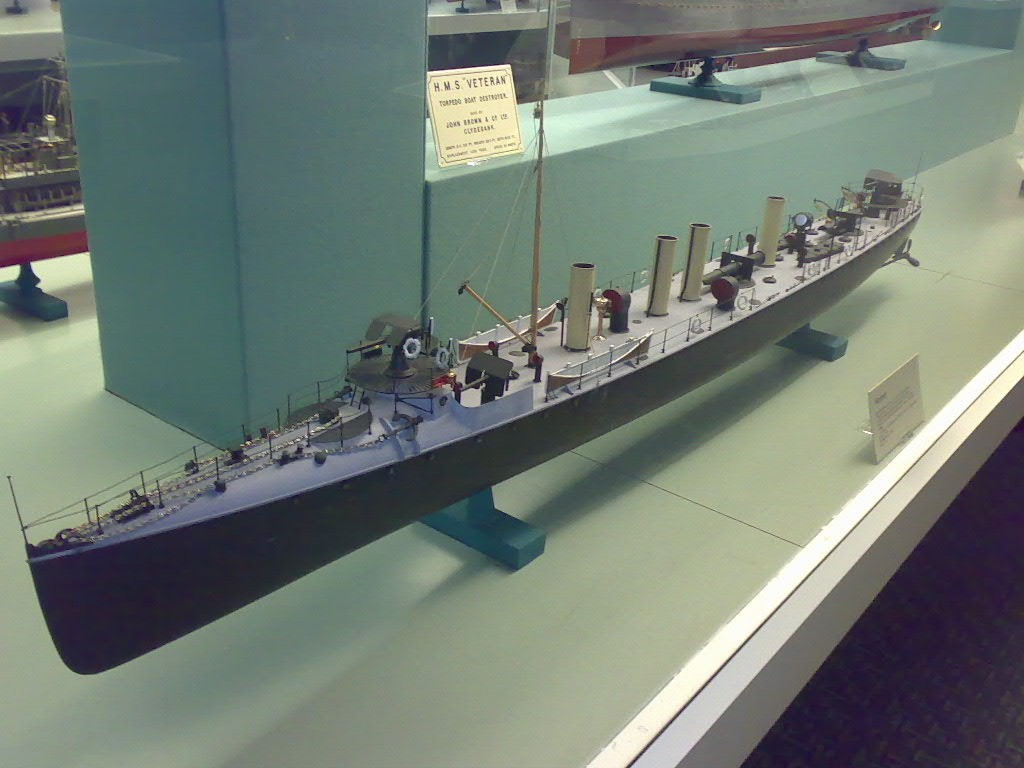 Model of HMS Hornet at the Glasgow Transport Museum